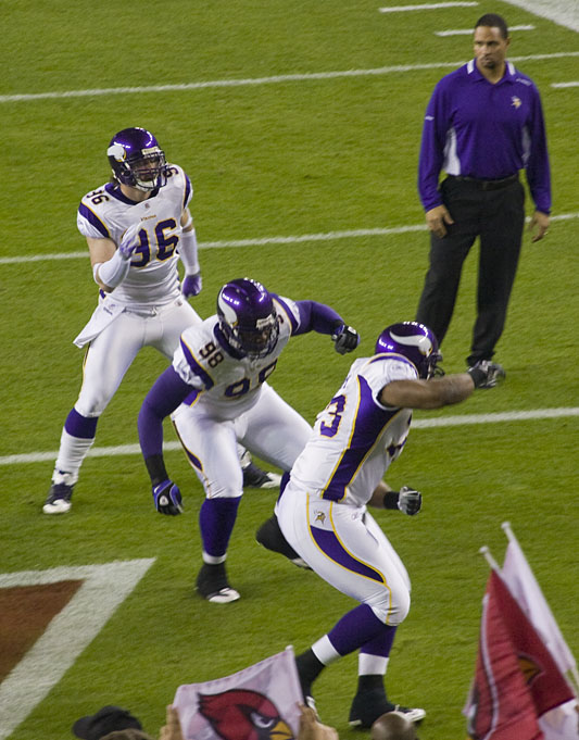 Minnesota Vikings defensive end Brian Robison